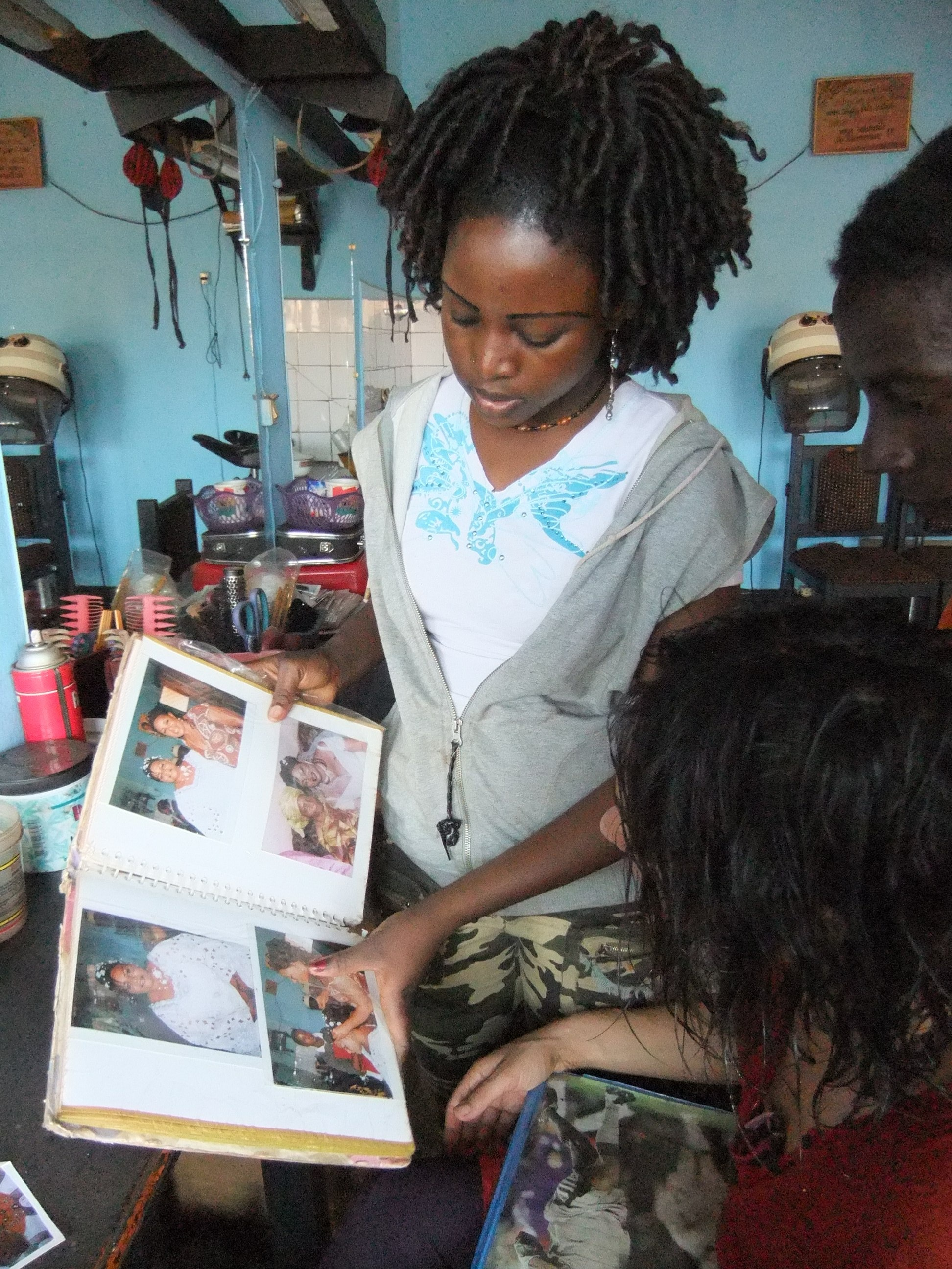 Bobo Dioulasso, Burkina Faso This is an image of "African people at work" from Burkina Faso